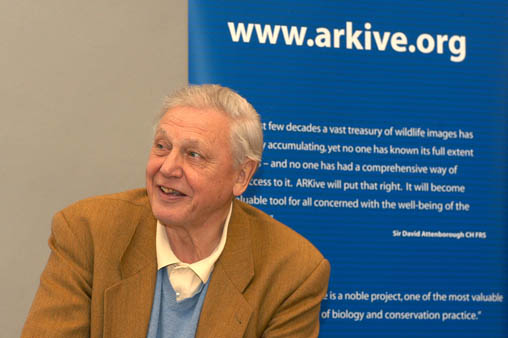 David Attenborough at ARKive's launch in Bristol, England, May 2003.